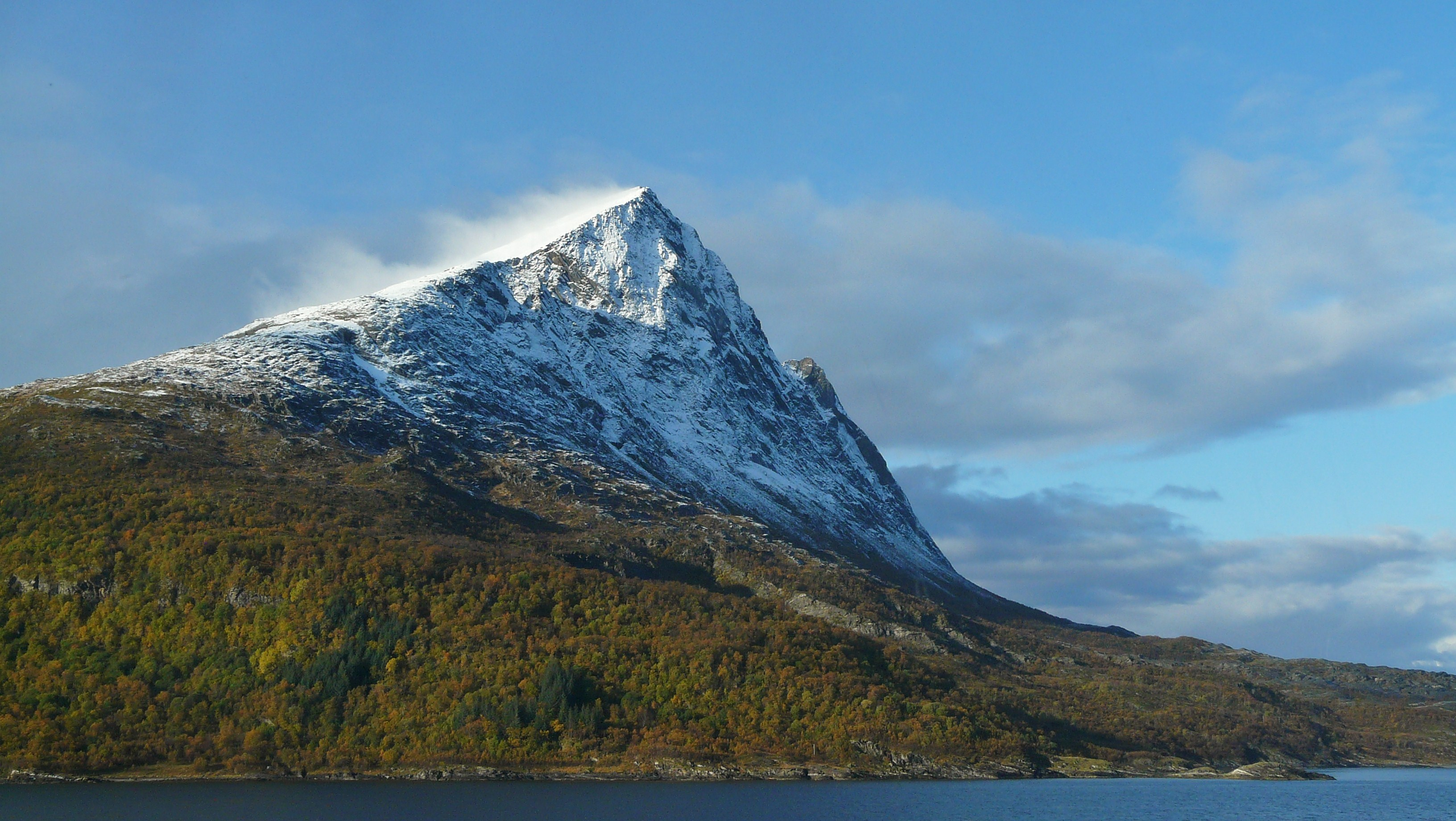 Tomskjevelen (922 m) as seen from the east from a Hurtigruten ship (M/S Polarlys) in 2009 October.